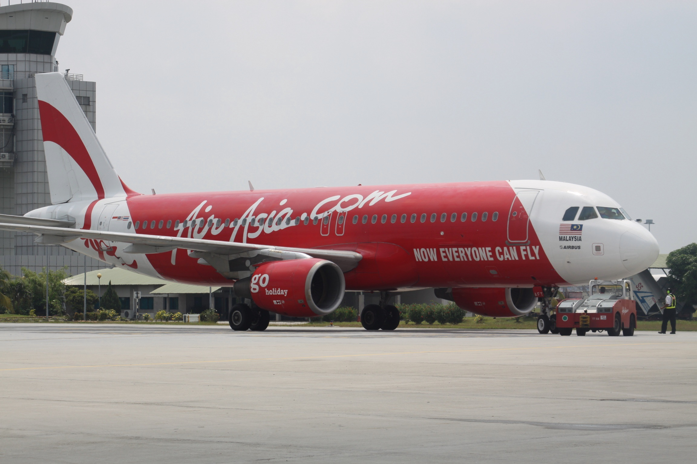 At Kuala Lumpur Sepang